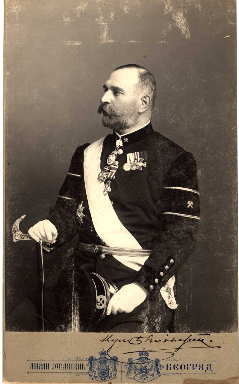 Đorđe Vajfert